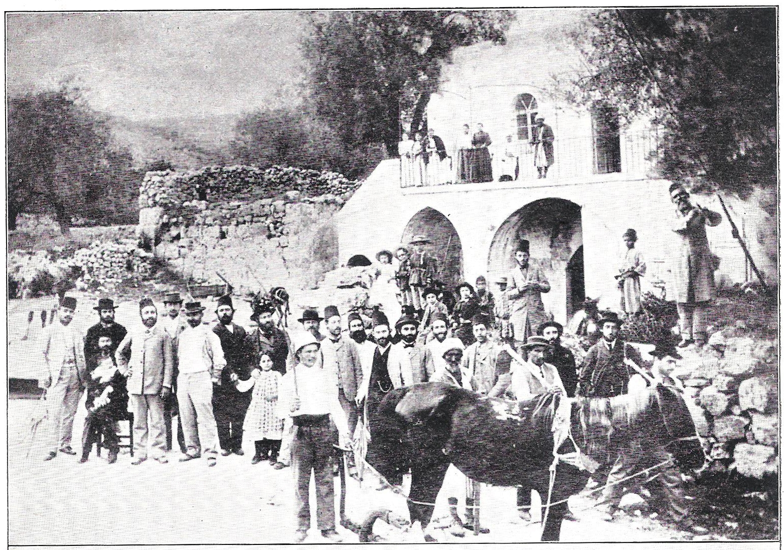 The picture are from old book (that was published in 1899), some of the picture are fro 1899, some are even older: This work or image is now in the public domain because its term of copyright has expired in Israel. According to Israel's copyright statute from 2007 (translation), a work is released to the public domain on 1 January of the 71st year after the author's death (paragraph 38 of the 2007 statute) with the following exceptions: A photograph taken on 24 May 2008 or earlier — the old British Mandate act applies, i.e. on 1 January of the 51st year after the creation of the photograph (paragraph 78(i) of the 2007 statute, and paragraph 21 of the old British Mandate act). If the copyrights are owned by the State, not acquired from a private person, and there is no special agreement between the State and the author — on 1 January of the 51st year after the creation of the work (paragraphs 36 and 42 in the 2007 statute). See also category: PD Israel & British Mandate. . For the scan and the the crop: The name of the book (in hebrew) is: "מראה ארץ ישראל והמושבות" by (in hebrew): "ישעיהו ראפאלוביטש ושותפו משה אליהו זאכס" Motza